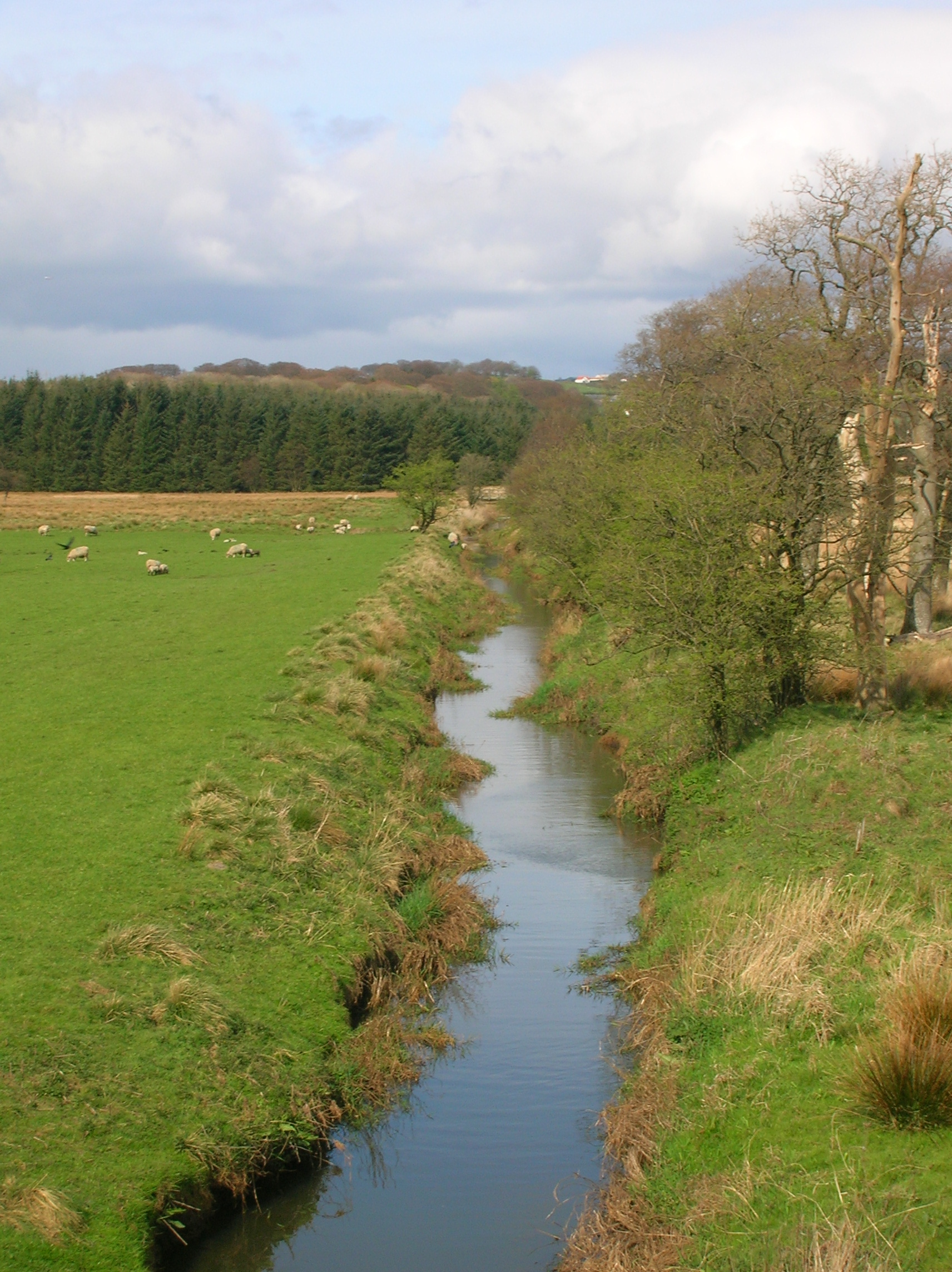 The Lugton Water at Lugton, East Ayrshire, Scotland. 2007.